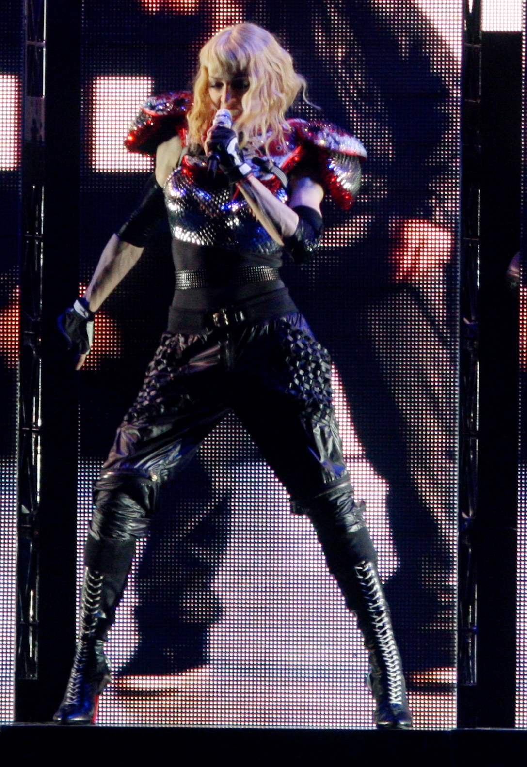 4 min